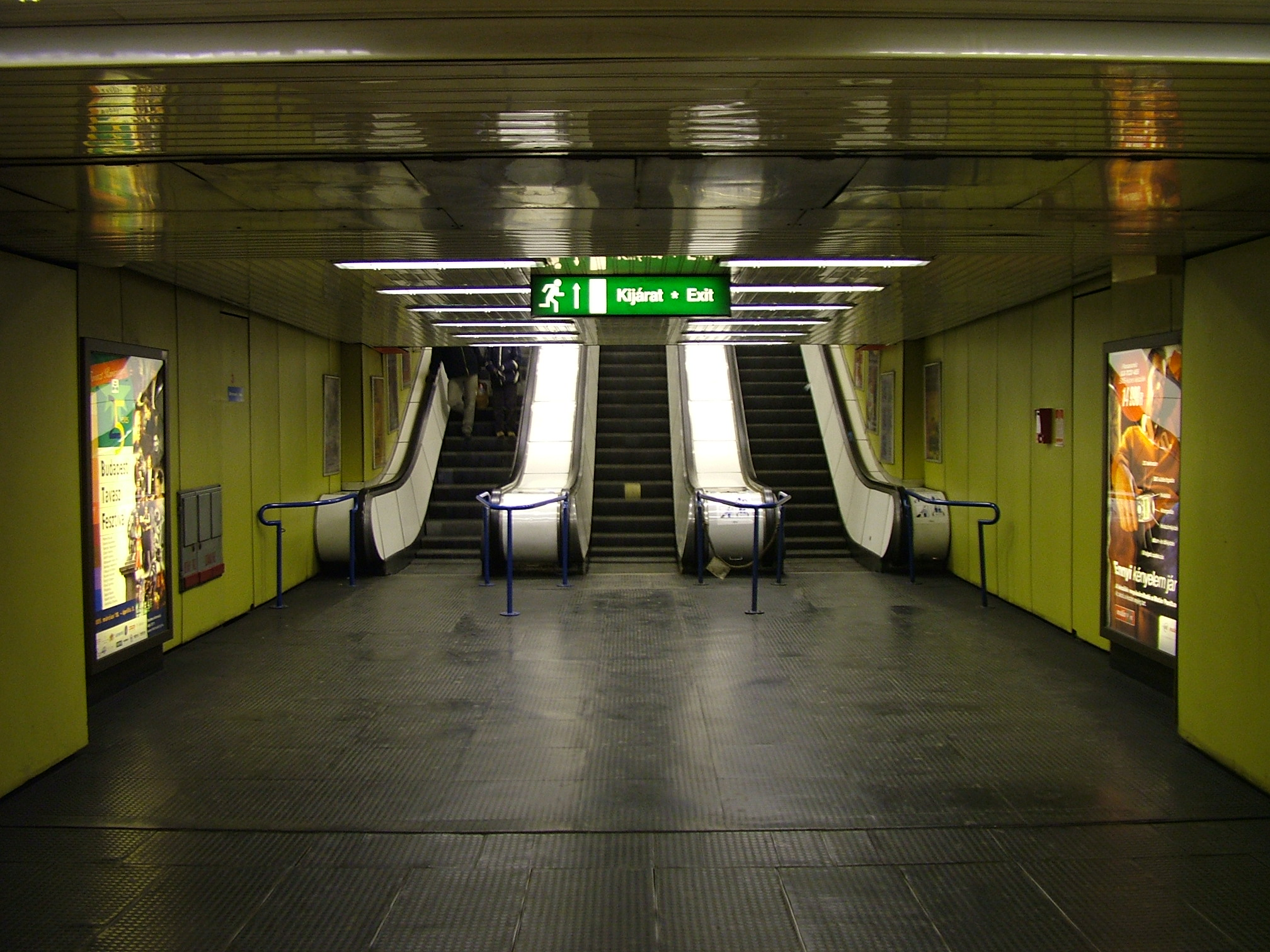 Arany János utca, Budapest metro